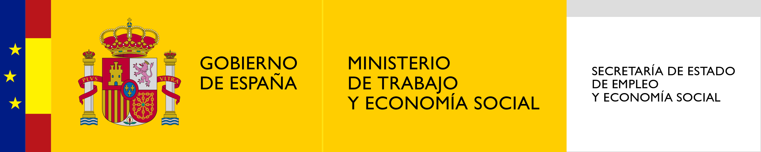 Logo of the Secretariat of State for Employment of Spain